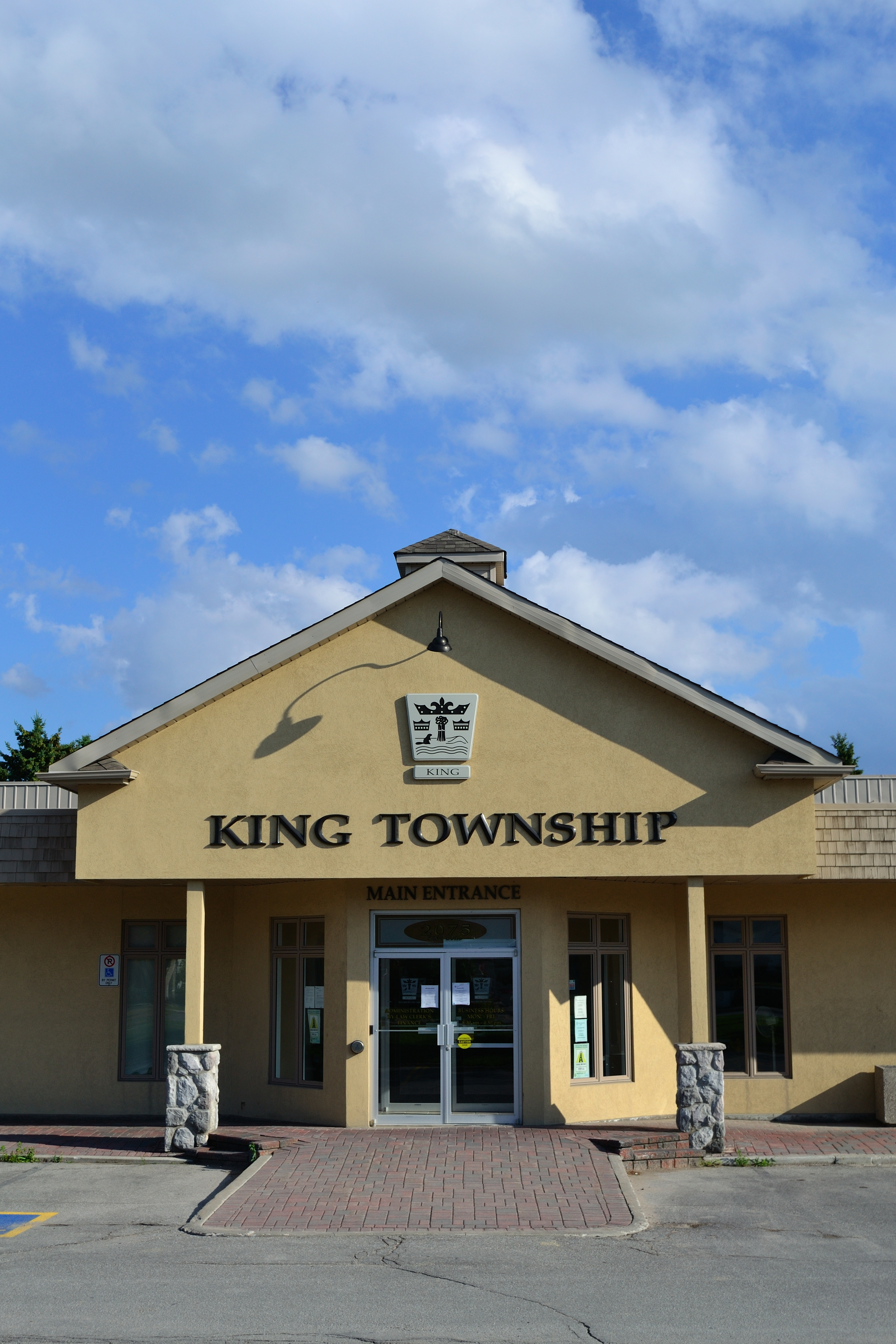 The Township of King Municipal Office.